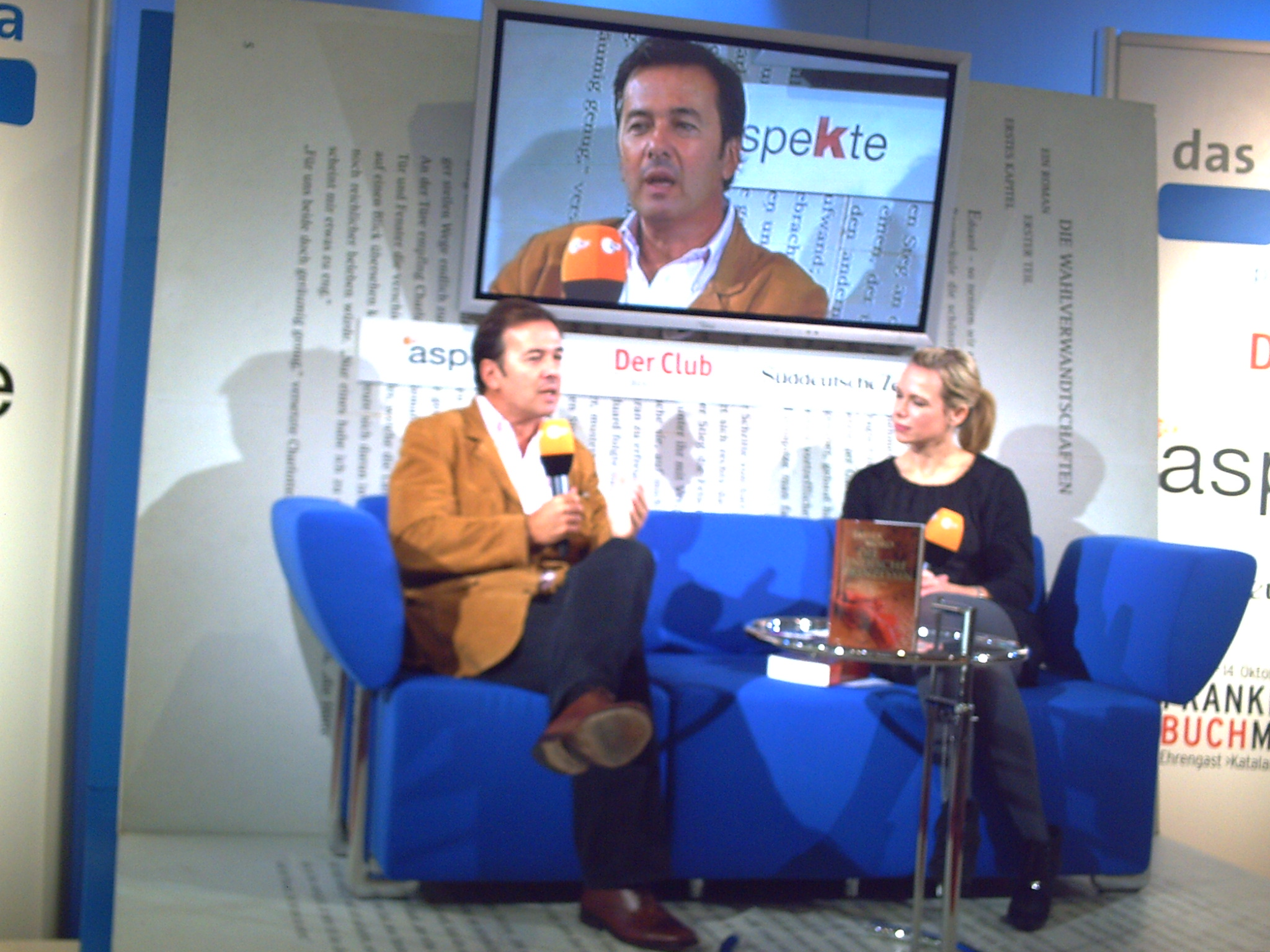 The author Javier Moro with his book "Die Indische Prinzessin" (The Indian Princess) on dancer Anita Delgado, at the Frankfurt Book Fair 2007.